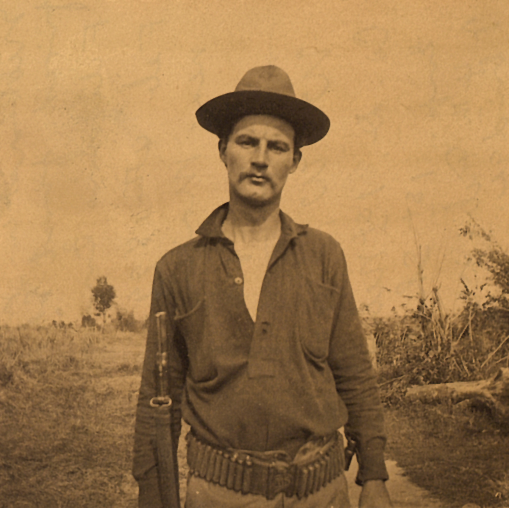 Image of William Walter Grayson from the Milsaps Diary, Volume 6, Page 43, at the Houston Public Library. Grayson is said to have fired the first shots in the Battle of Manila (1899).